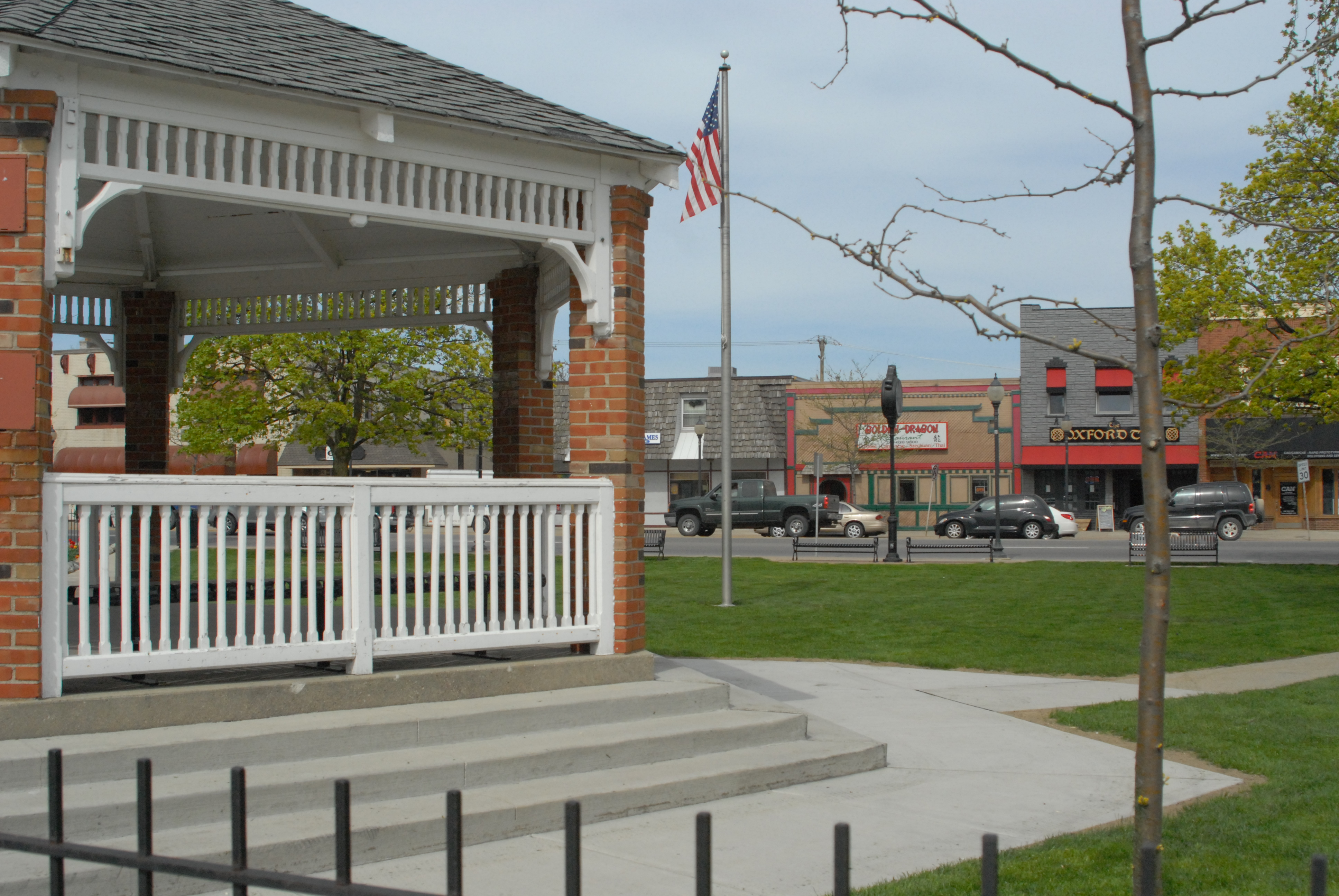 Oxford Michigan